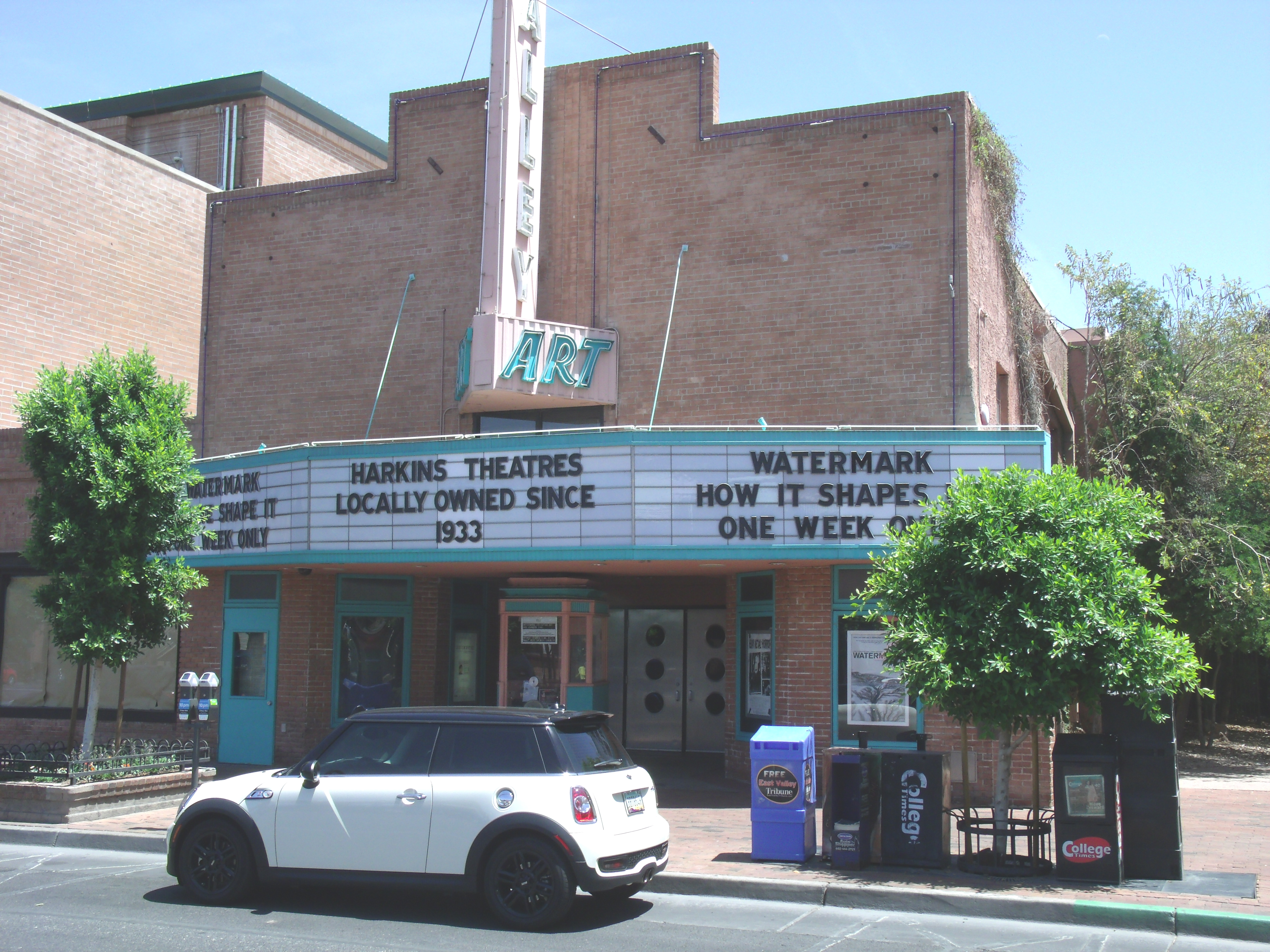 The College Theatre — a historic cinema located at 505-509 S. Mill Ave. in Tempe, Arizona. Now renamed the Valley Art Theatre, it is Arizona's oldest and longest operating movie theatre. Designed and constructed in 1933 by Red Harkins at the age of 25, and listed in the Tempe Historic Property Register.